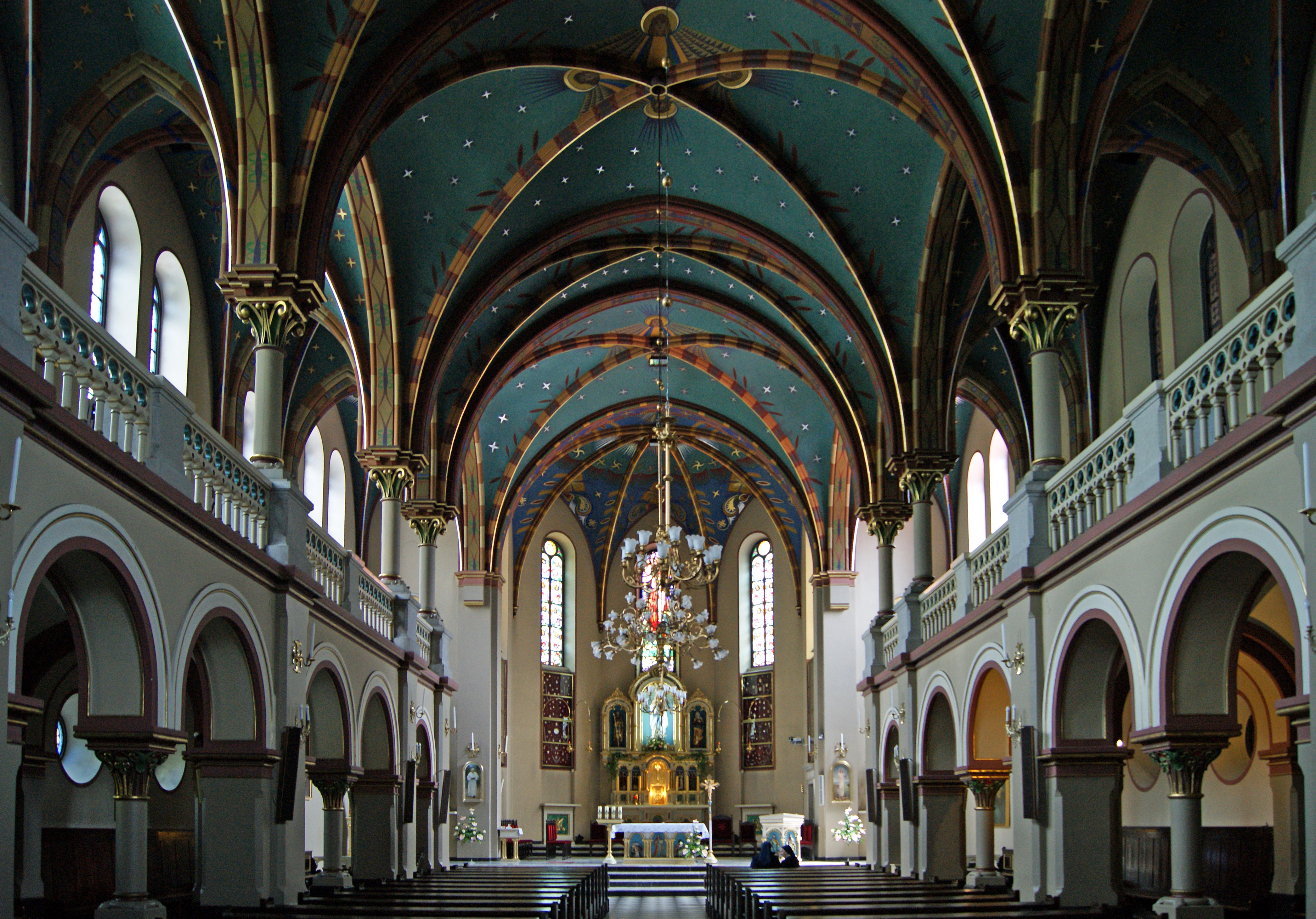 Our Lady of Lourdes Church (interior), 37 Misjonarska street, Krakow, Poland